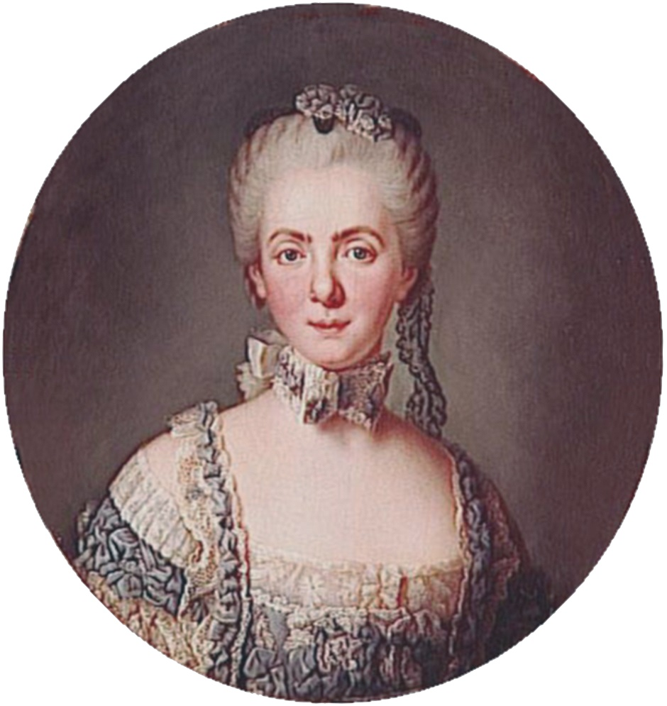 Marie Adelaide of France - daughter of Louis XV.